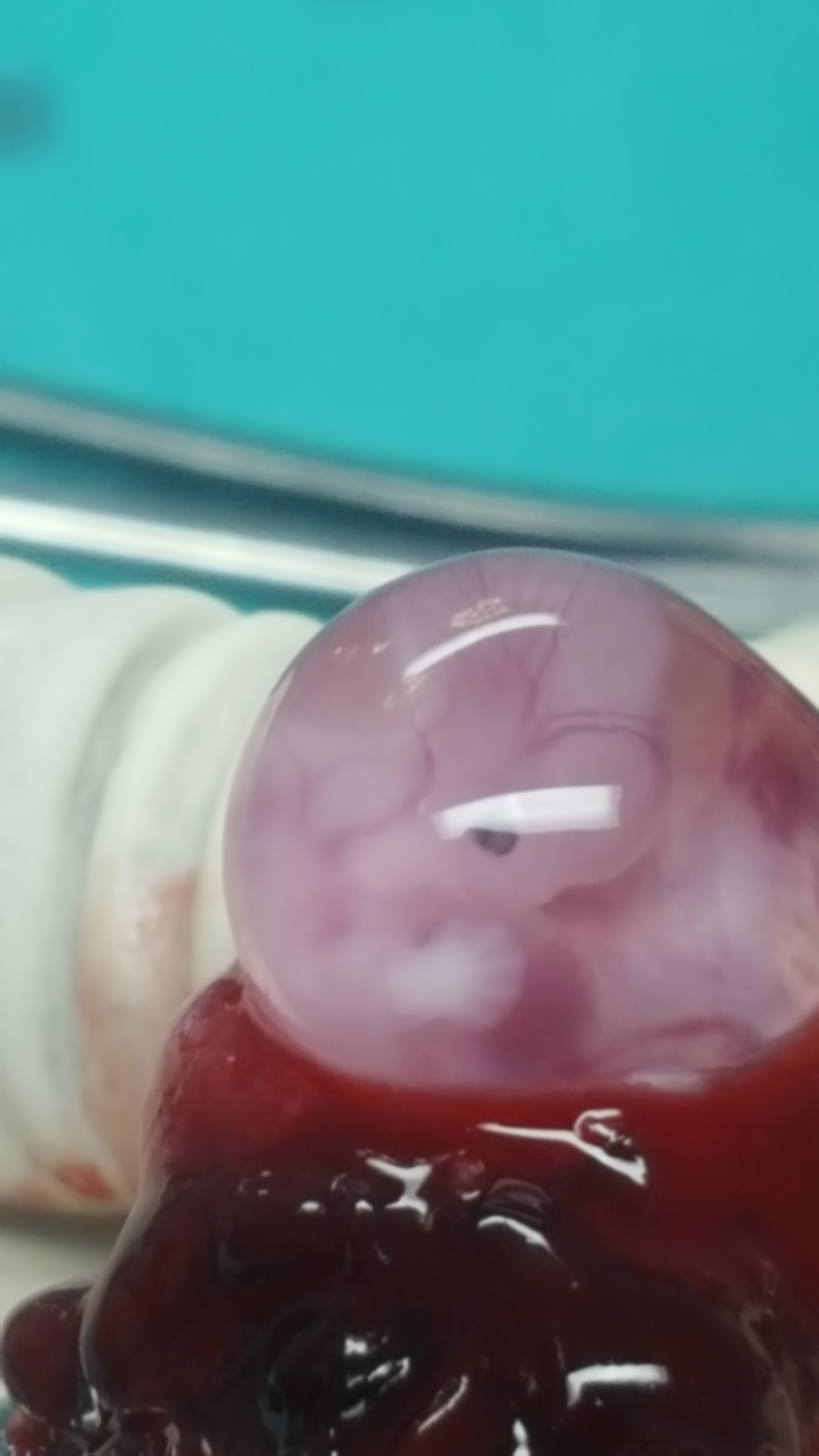 Ectopic pregnancy with human embryo